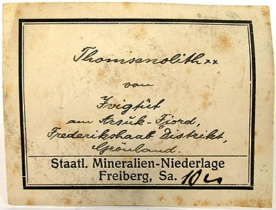 Ralstonite, Thomsenolite Locality: Ivigtut Cryolite deposit, Ivittuut (Ivigtut), Arsuk Firth, Arsuk, Kitaa (West Greenland) Province, Greenland (Locality at ) Size: miniature, 5.2 x 3.6 x 3.3 cm Thomsenolite in Ralstonite This is a very rich specimen with several shallow vugs into which beautiful, transparent crystals of thomsenolite to 8mm grow. The front view, for my taste, is shown in the large image. However the back side is also interesting, and has more crystals, in which the top halves are infused with iron staining, giving them an unusual umber coloration. Old specimen from the late 1800s or early 1900s, from the Freiberg State Mining Museum. (TYPE LOCALITY)